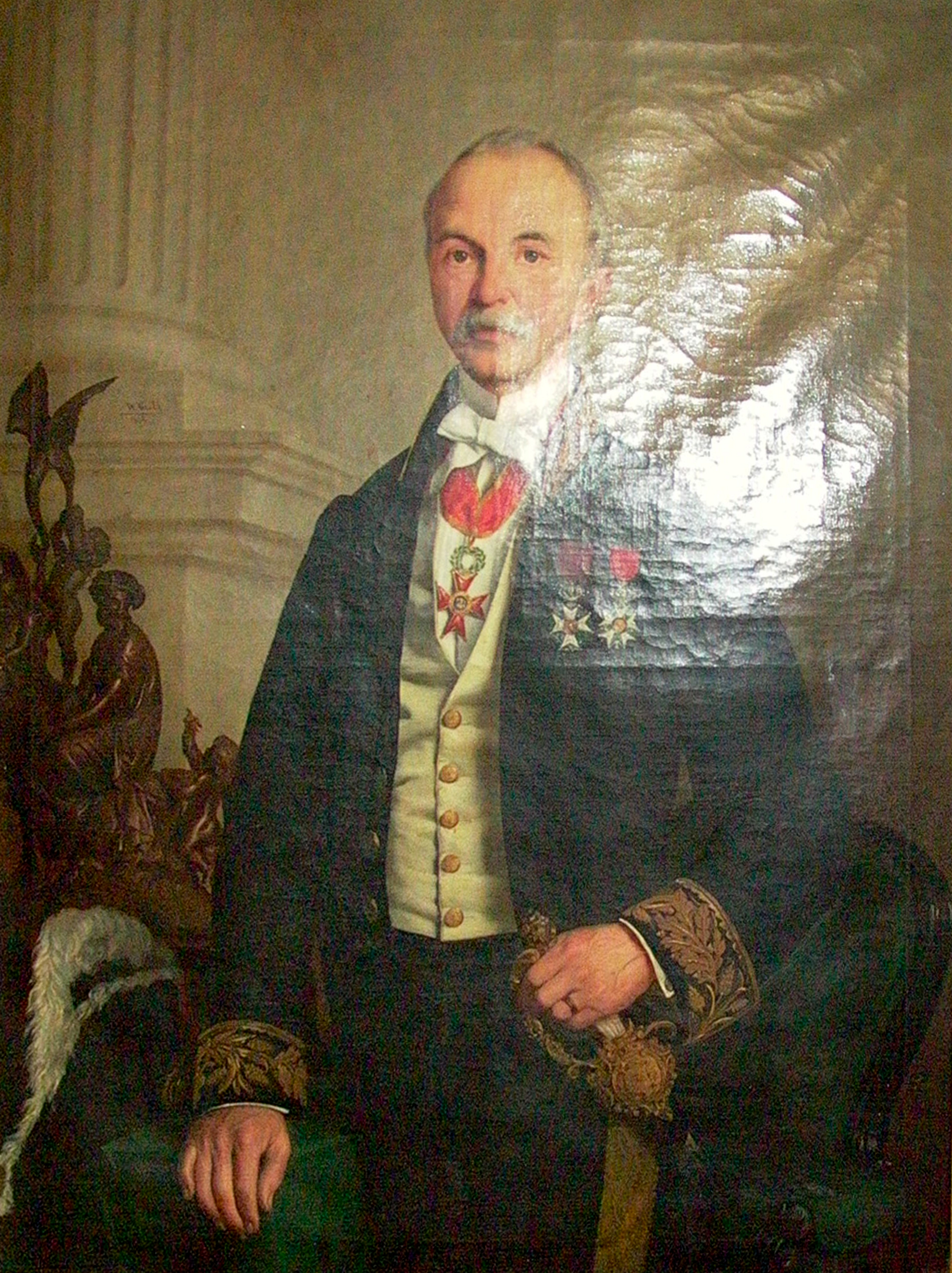 François Joseph Ghislain de Cannart d'Hamale (1803-1888), senator